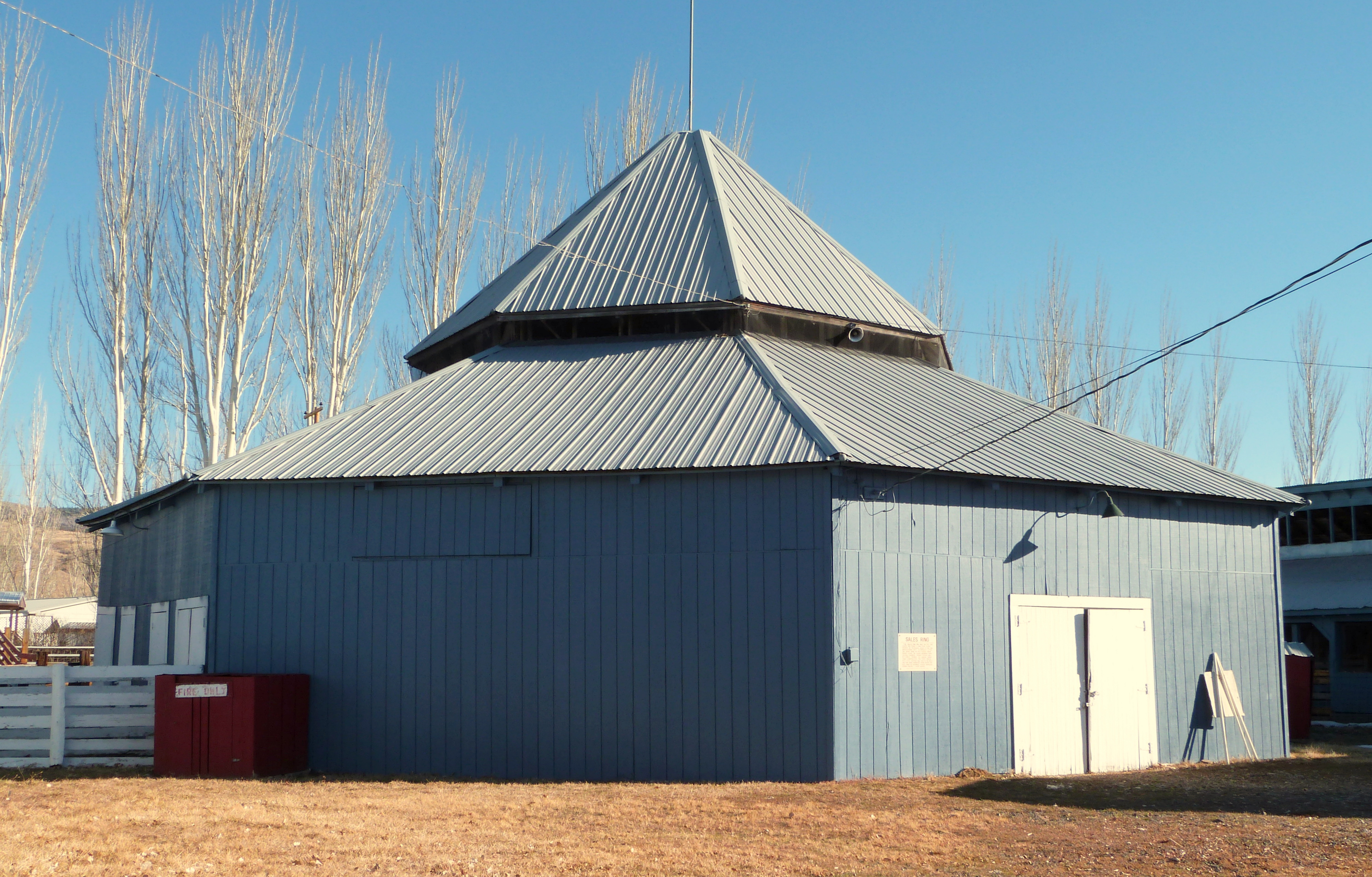 The historic Lake County Round Sale Barn (built 1942), located on the Lake County Fairgrounds at 3531 North 6th Street in Lakeview, Oregon, United States, is listed on the US National Register of Historic Places.